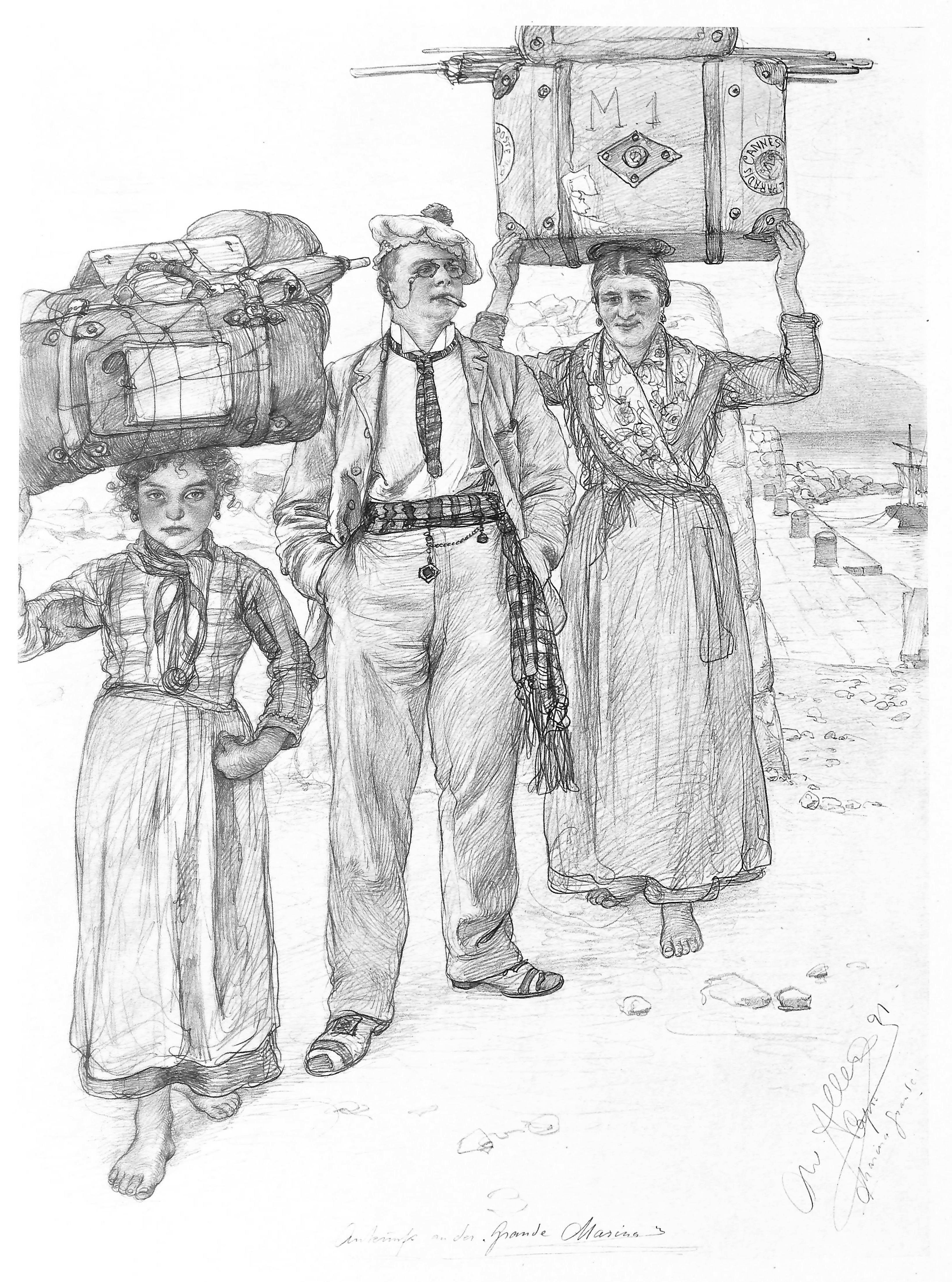 Female porters with Tourist at Capri, Italy.